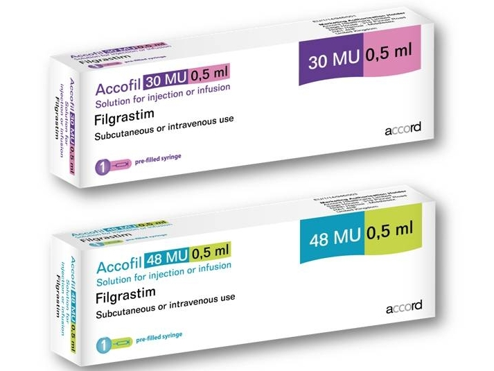 Accofil (filgrastim) is manufactured by Intas in its EMA certified plant in India.